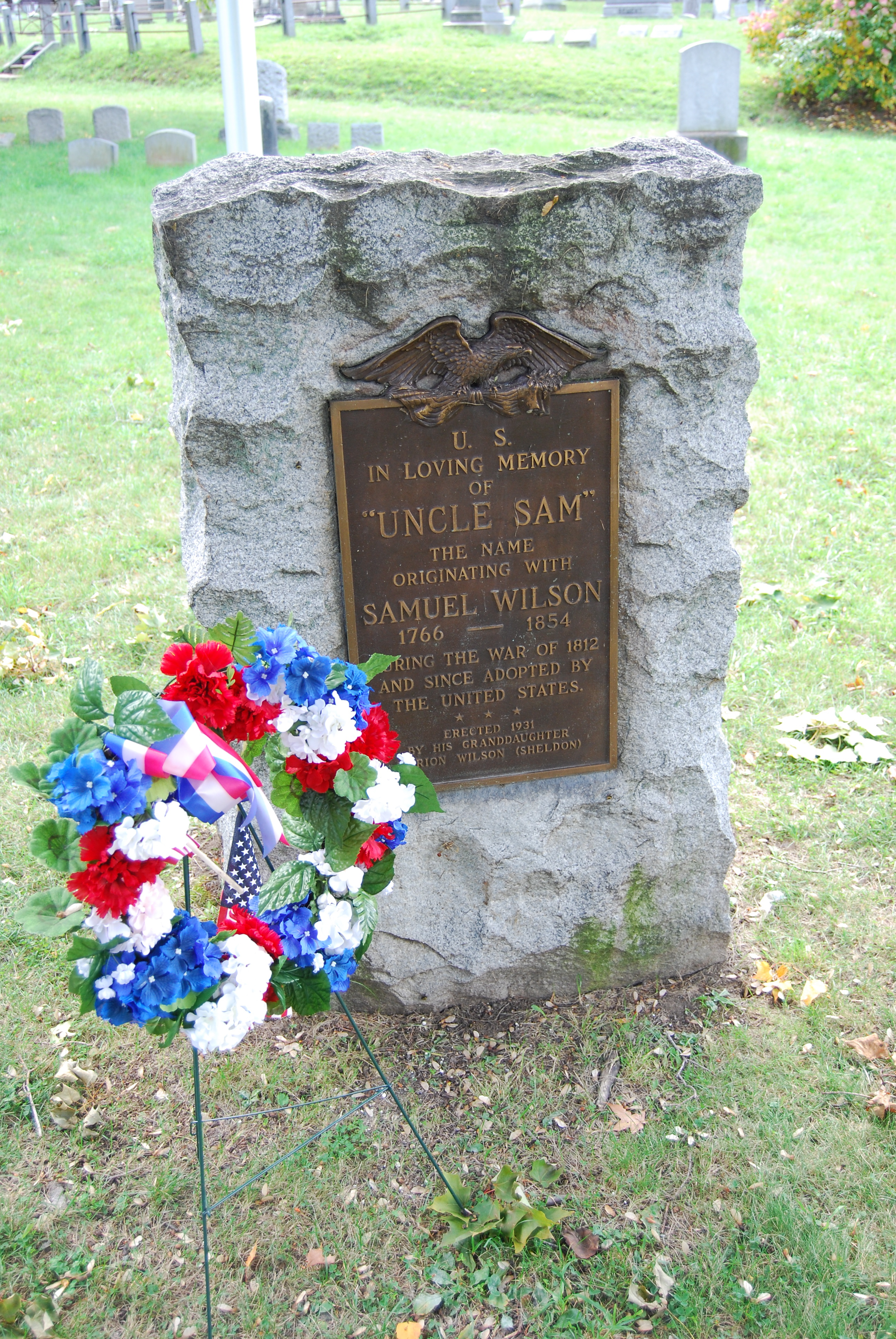 Grave of Samuel Wilson in Oakwood Cemetery in Troy, New York, United States. Sam Wilson is a possible source of the name Uncle Sam.